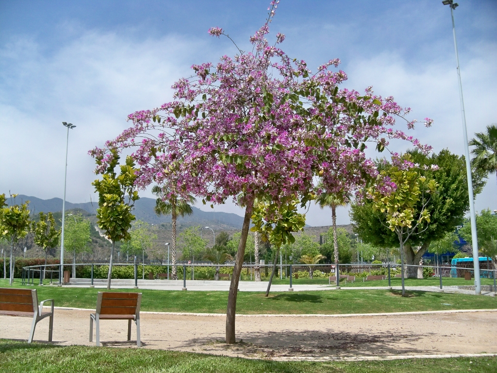 Tree Bauhinia variegata, Parque de la Alegría, in Málaga, Spain.